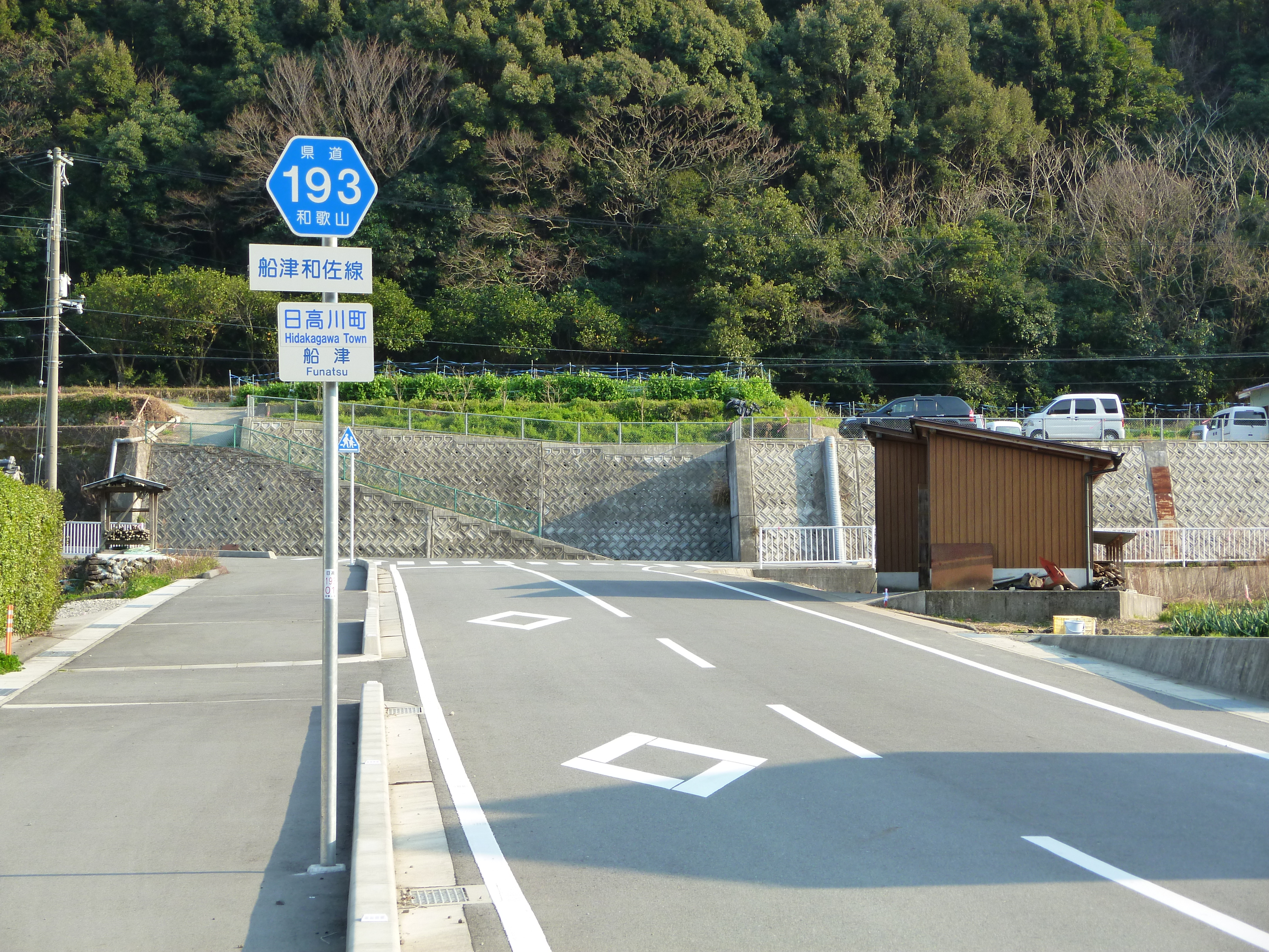 The Wakayama Prefectural Road Route 193 in Funatasu, Hidakagawa Town